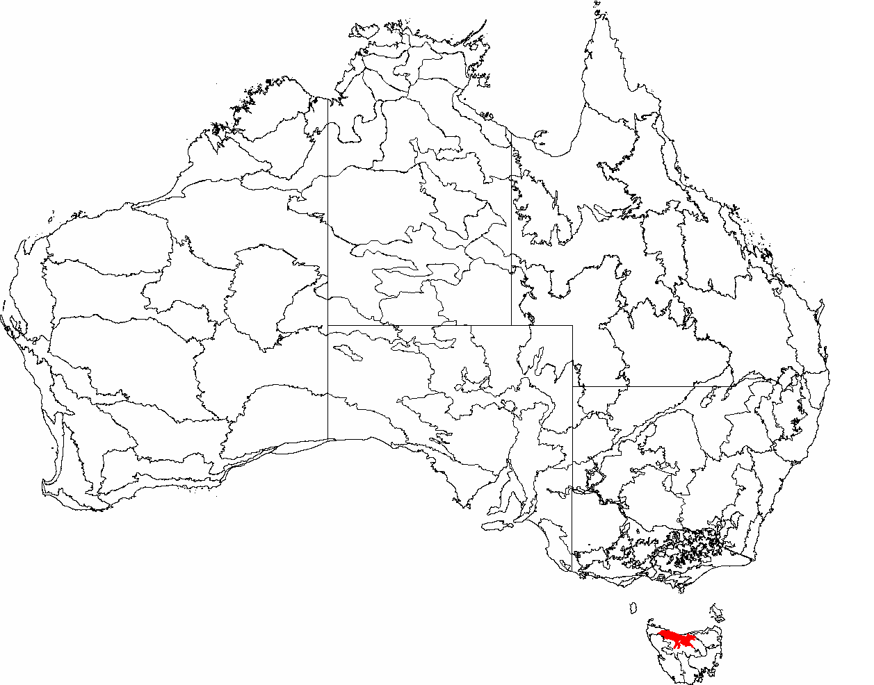 This is a map of the Interim Biogeographic Regionalisation of Australia (IBRA), with state boundaries overlaid. The Tasmanian Northern Slopes region is shown in red.